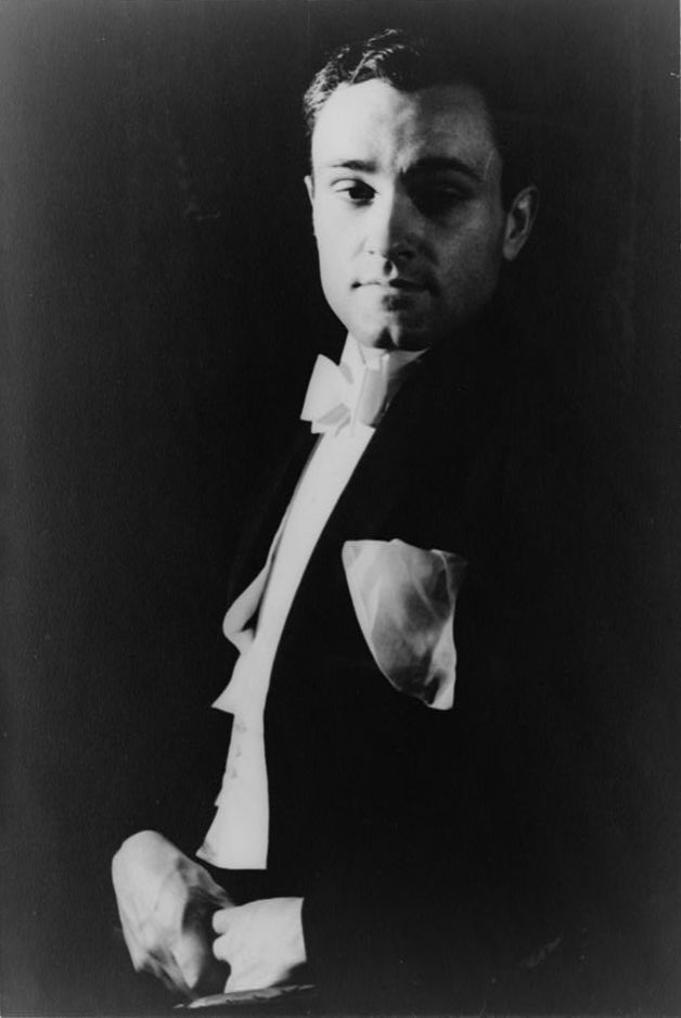 Portrait of Philip Johnson